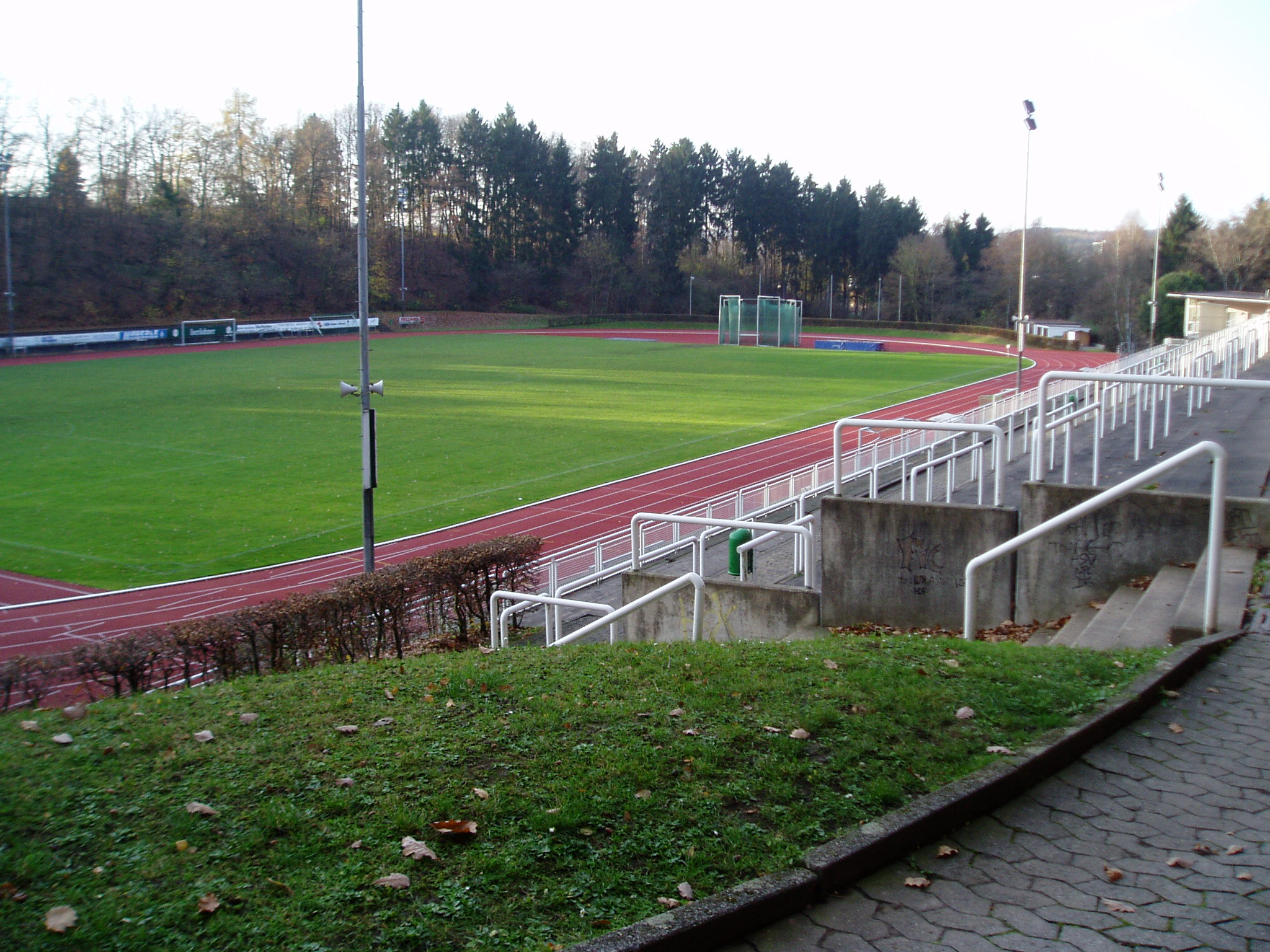 Author: Rusti description: Huckenohlstadion in Menden (Sauerland) source: selbst fotografiert